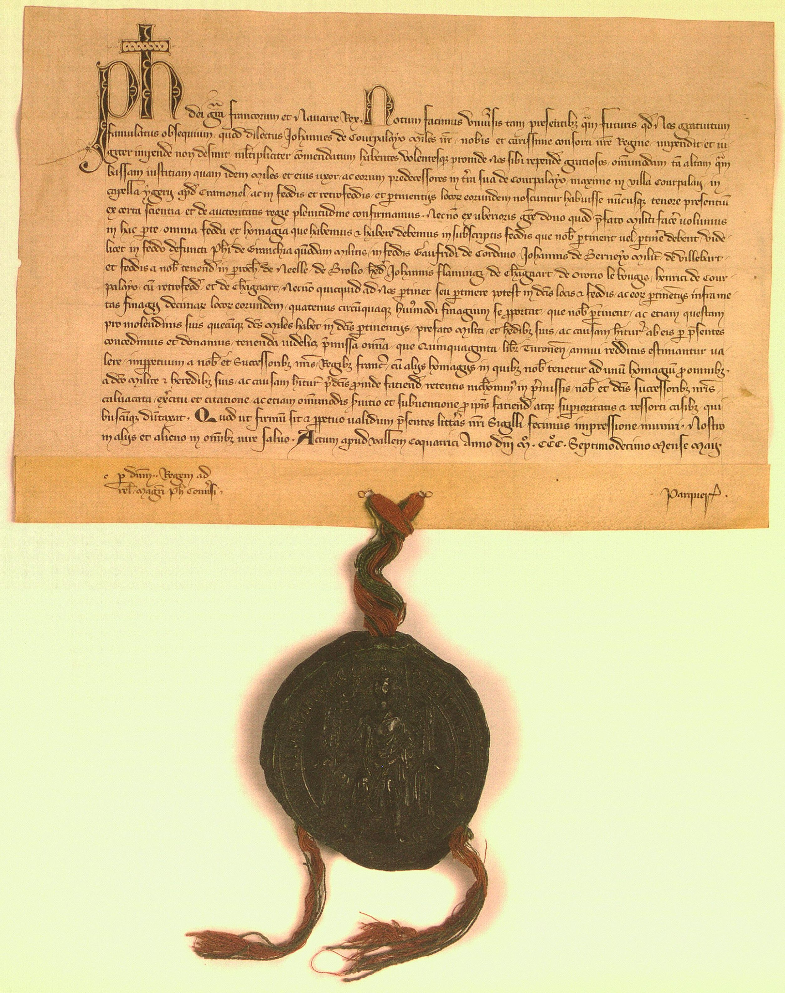 A charter of King Philip V of France. Paris, Archives nationales, J 396, No. 18.